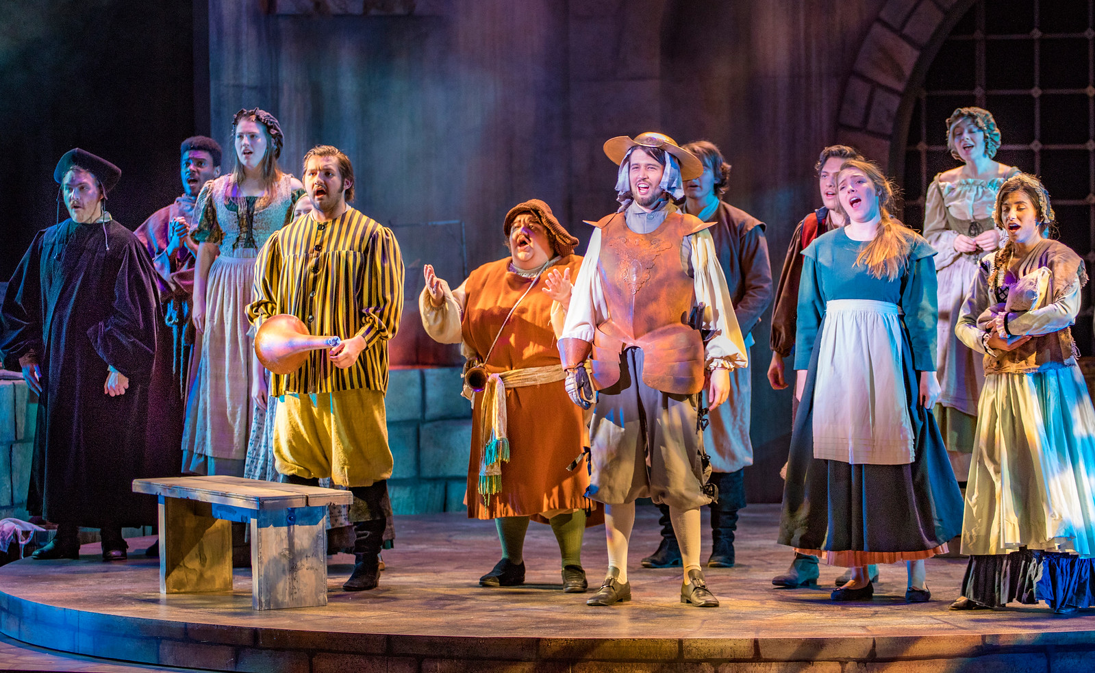 UA Department of Theatre